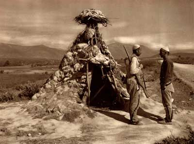 Kosovo Albanian rebels (Kachaks) in the 1920s controling a road in Kosovo.